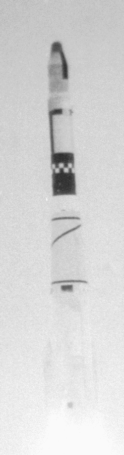 Launch of the Thor SLV-2A Agena D rocket with satellite Corona 85.